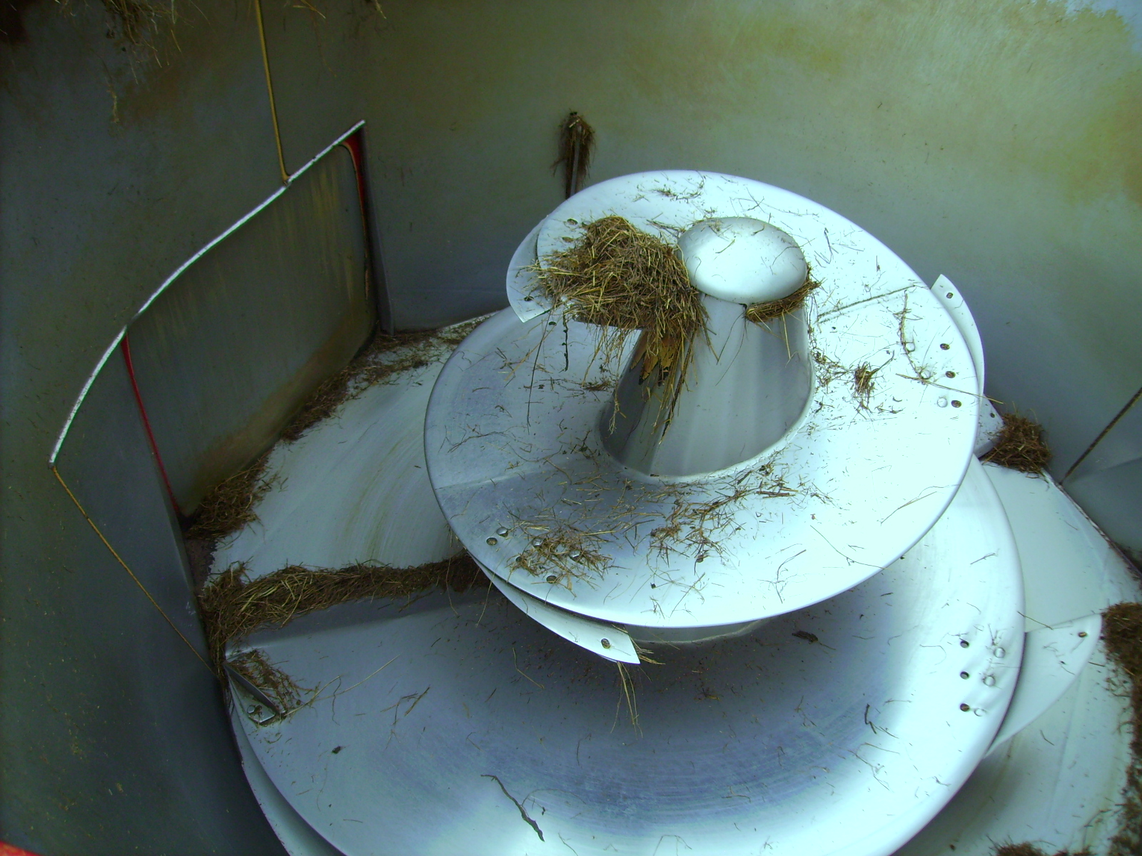 Mischschnecke eines Futtermischwagens (Vertikalmischer)